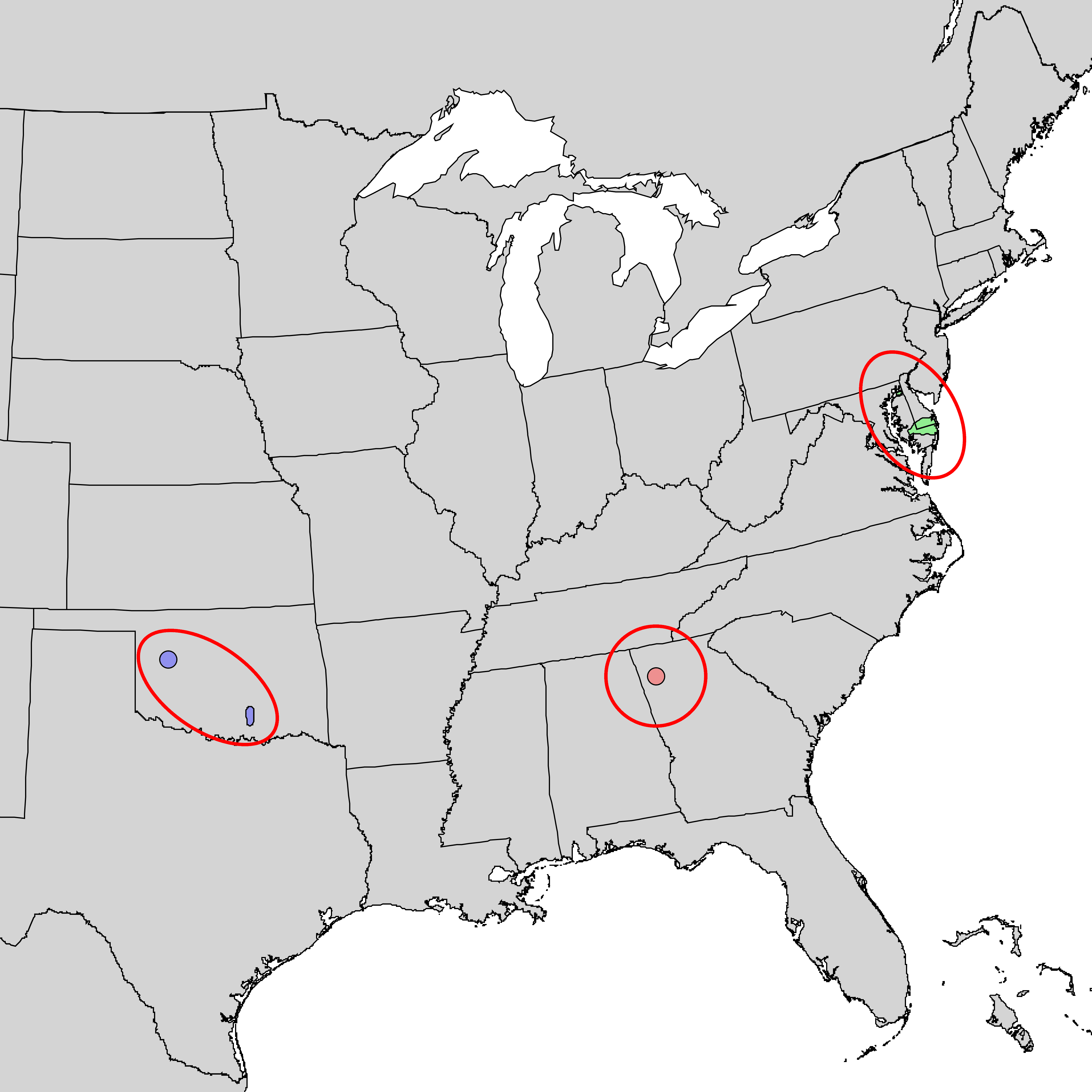 Natural distribution map for Alnus maritima